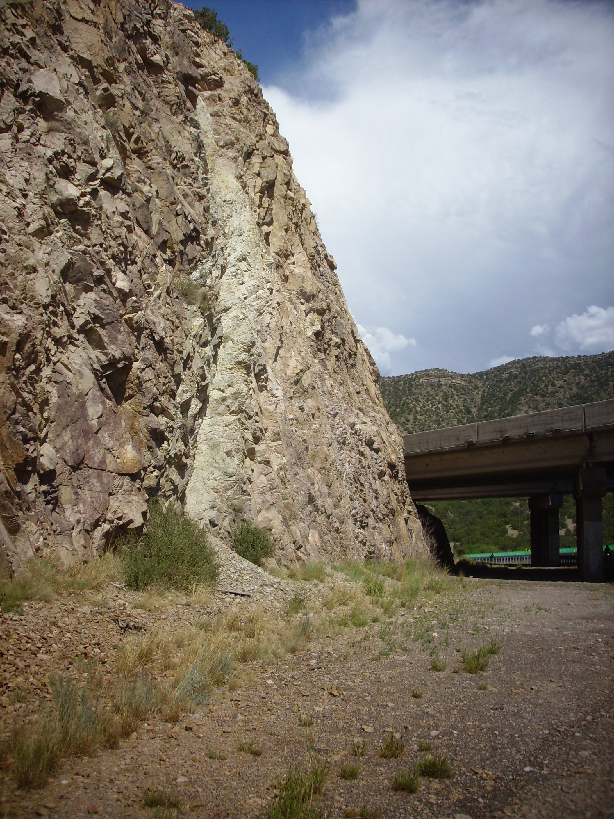 This image shows a road cut along the old Route 66 in Tijeras Canyon, east of Albuquerque, New Mexico, USA. The cut exposes Cibola Gneiss, a Precambrian pluton.